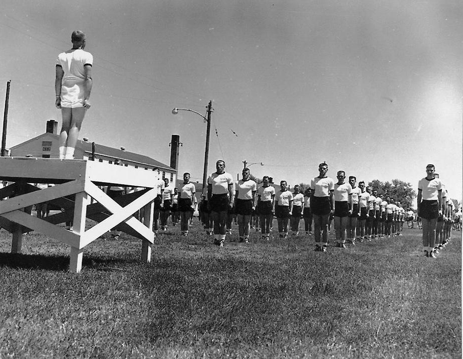 Basic cadets from the first Air Force Academy class line up for physical training here, the temporary location for the academy while permanent facilities were being constructed in Colorado Springs.